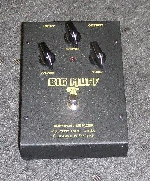 Electro-Harmonix Big Muff Pi (Russian Sovtek version)